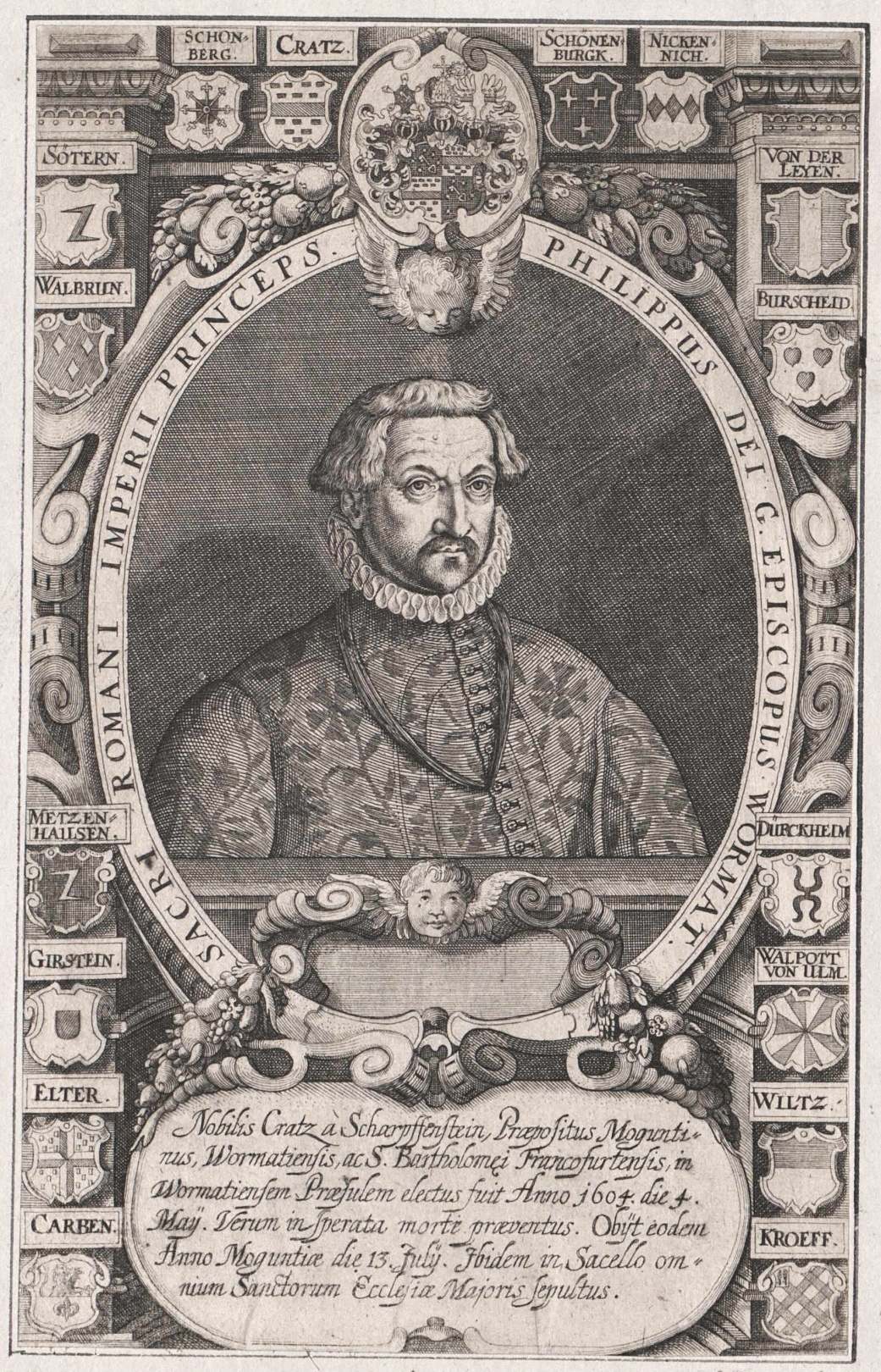 Philipp Kratz von Scharfenstein (1540-1604), erwählter Bischof von Worms